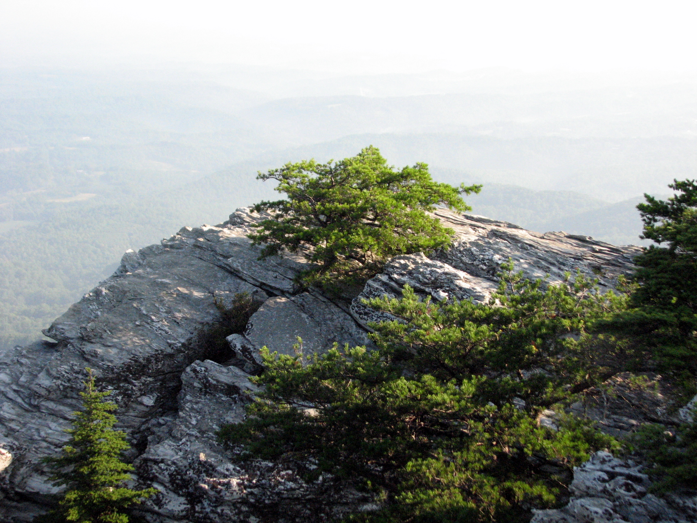 Pinus virginiana, Moores Knob Hanging Rock State Park, NC 8332